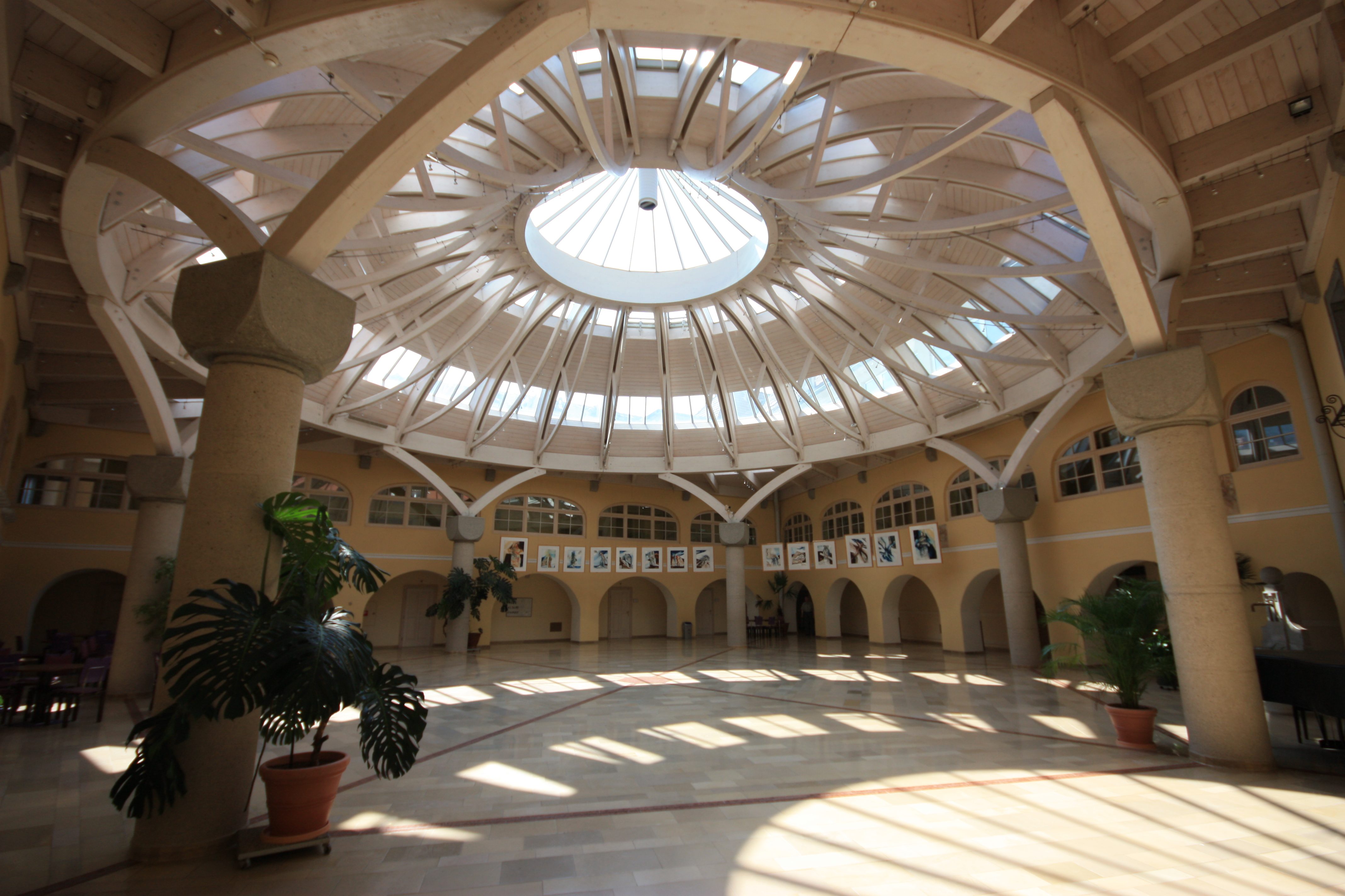 Central-hall in the Deutschorden-hospital in Friesach, Carinthia